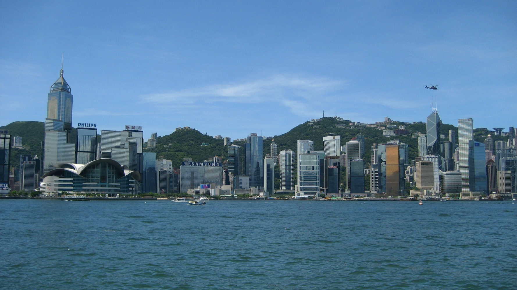 Victoria Harbour(Day time)